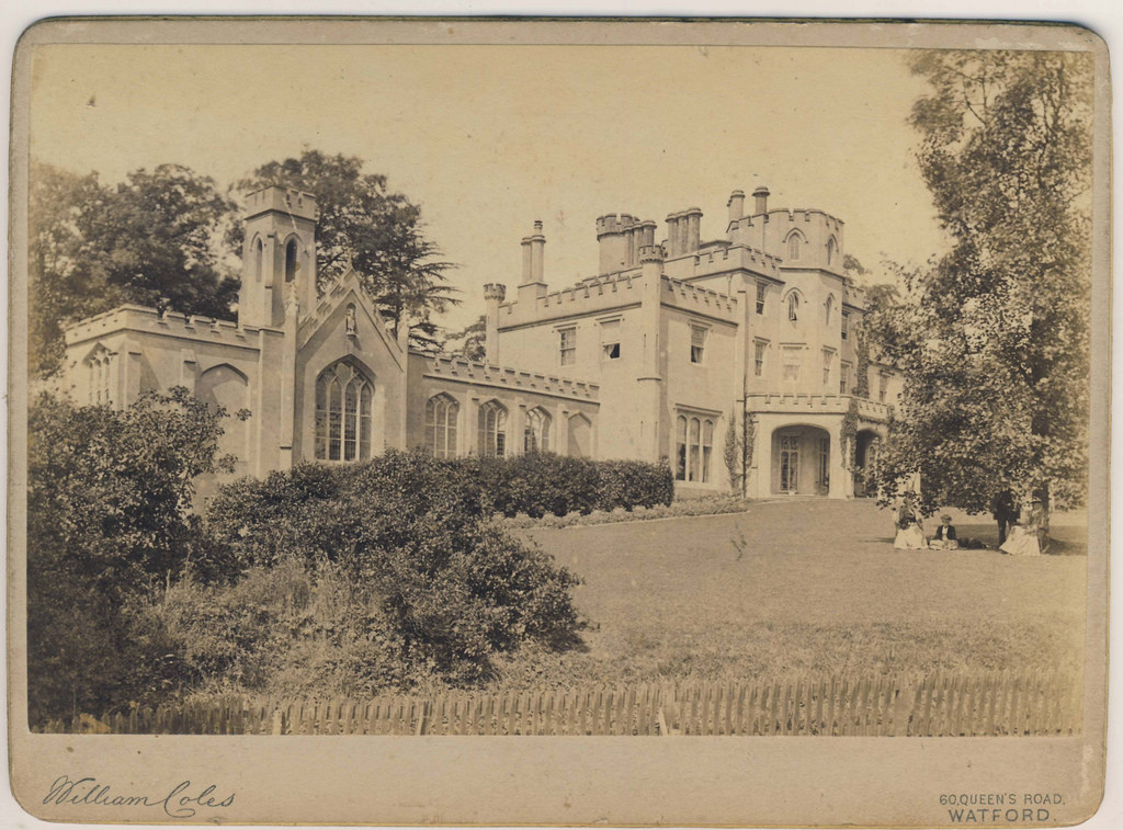 View of Hilfield Castle , an aristocratic residence near Watford , Hertfordshire , UK.